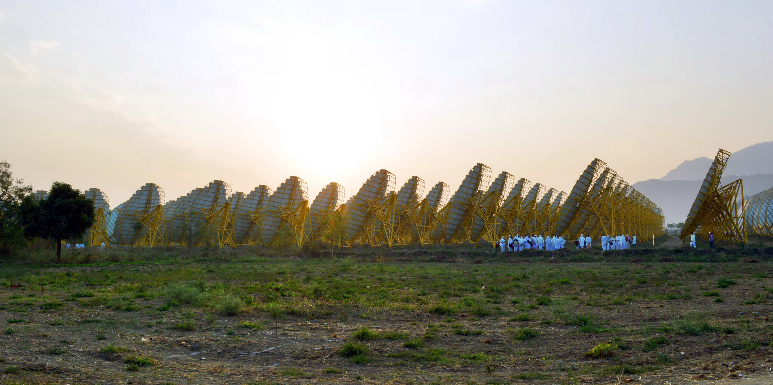 India One Solar Thermal Power Plant These photos were taken while construction. Situated at: Aburoad, Rajasthan, India Website